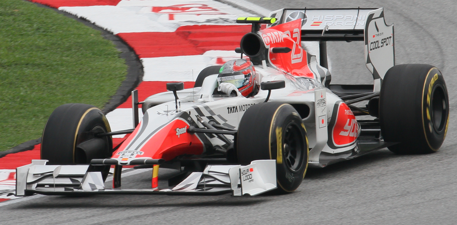 Formula One 2011 Rd.2 Malaysian GP: Vitantonio Liuzzi (HRT) during the qualify session on Saturday.